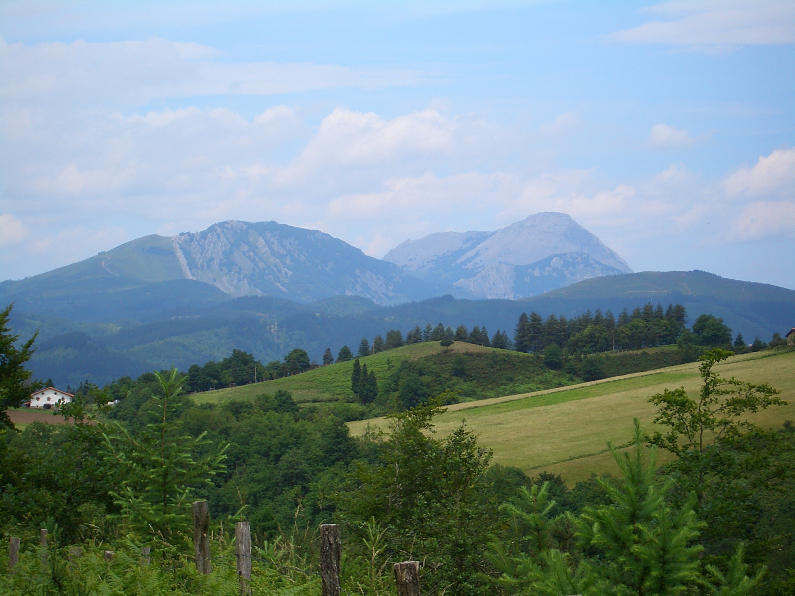 In the mostly forested area in the hills SE of Leintz-Gatzaga and east of Landa, between Vitoria-Gasteiz and Aretxabaleta